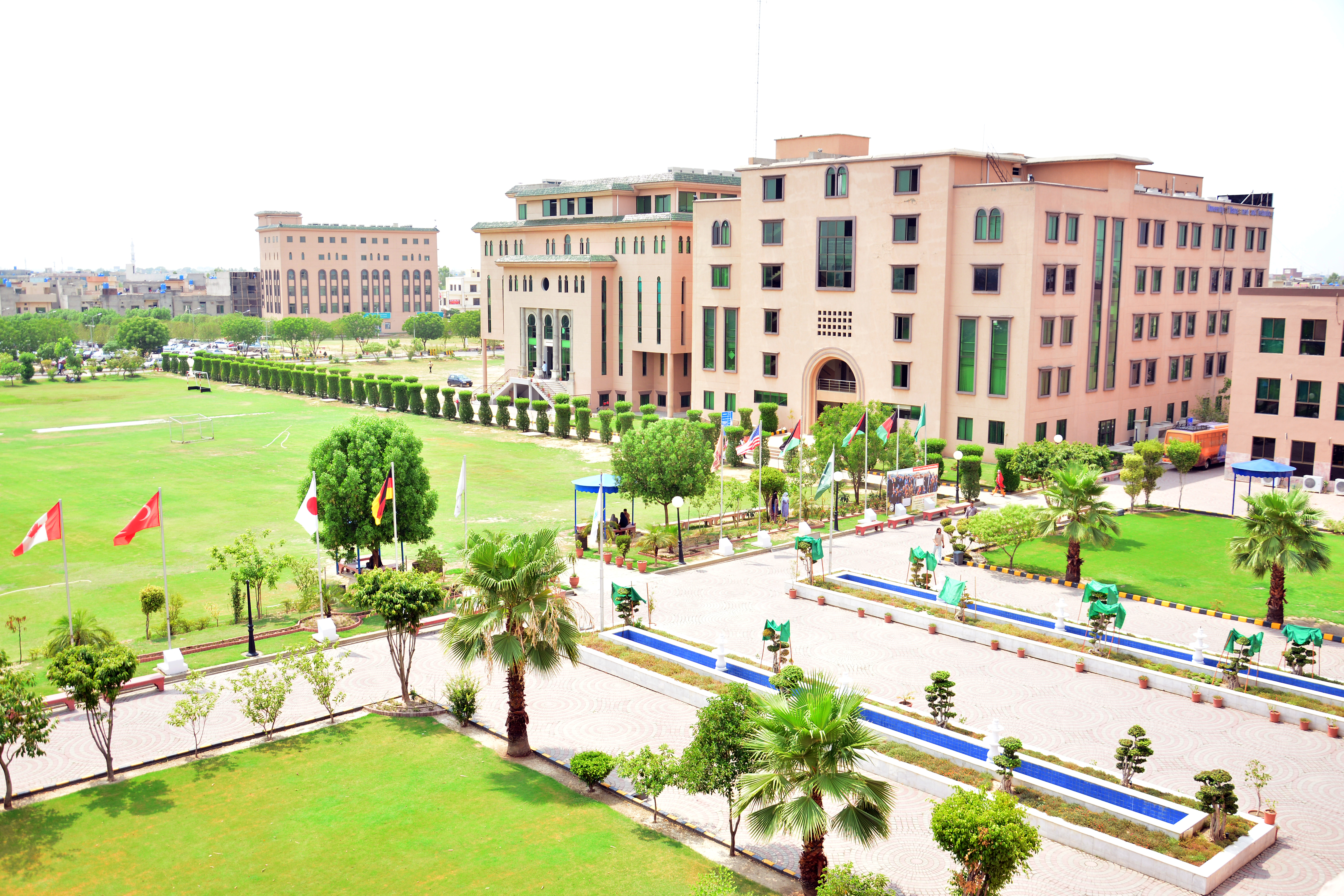 UMT Greens view